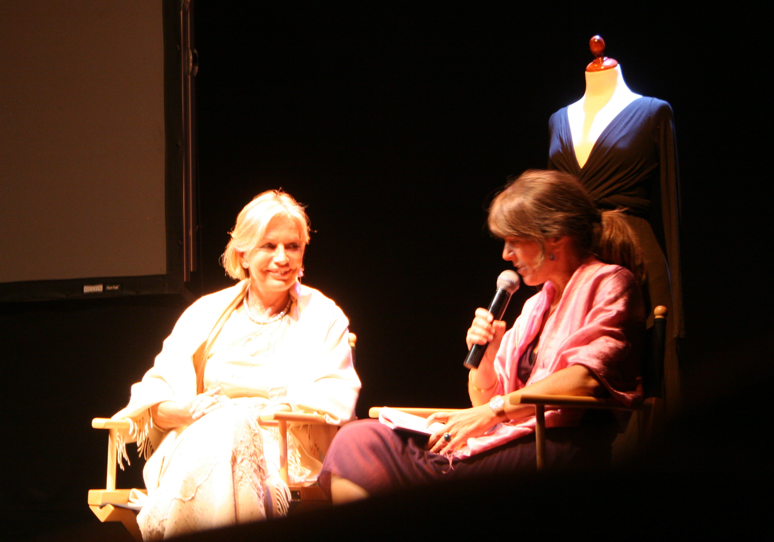 French actress Catherine Spaak